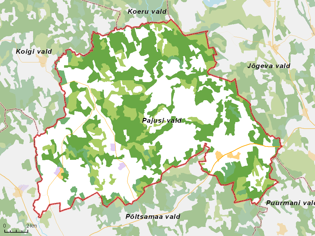 Map of municipality in Estonia